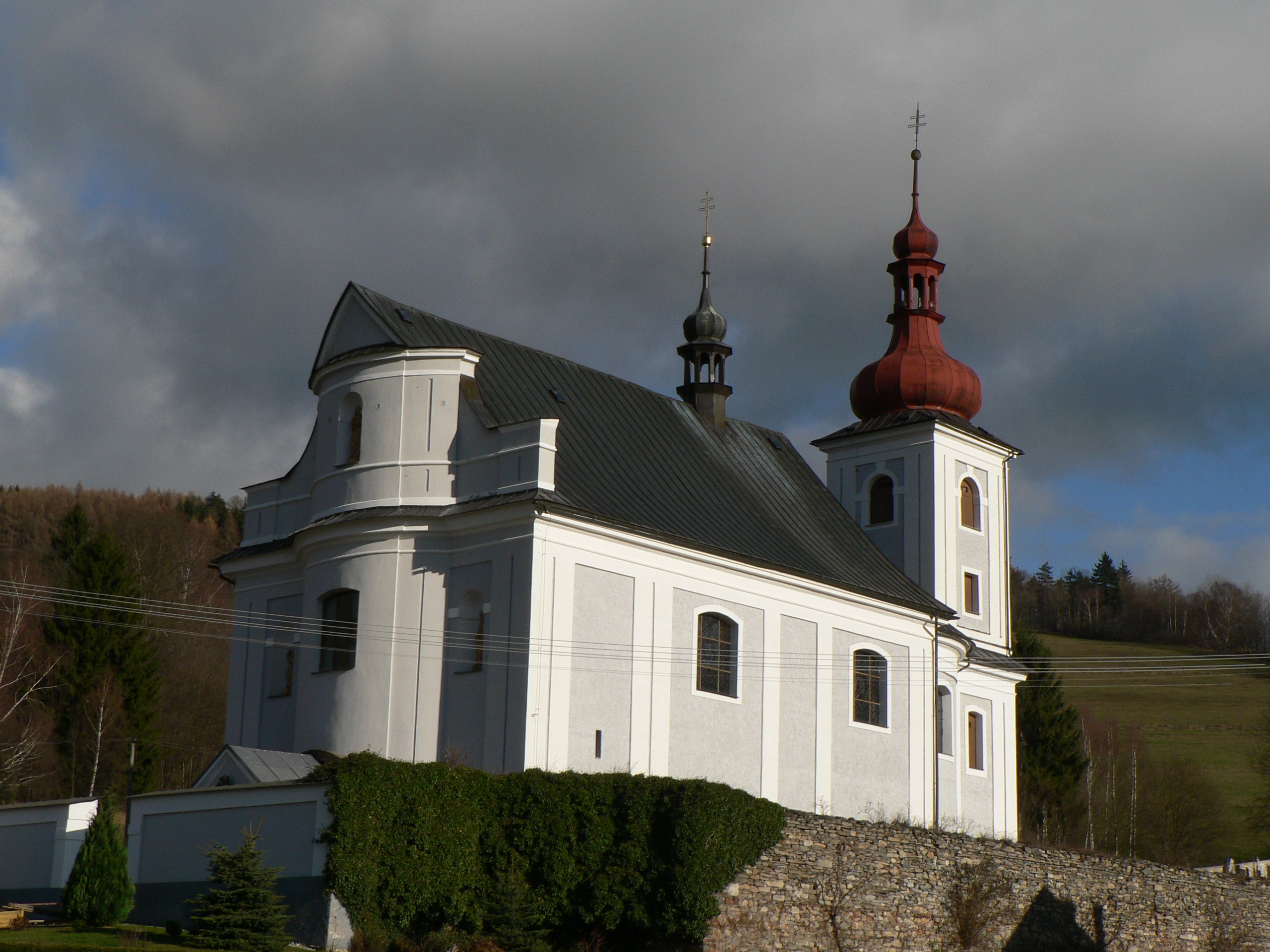 Bohdíkov, Šumperk District, Czechia.